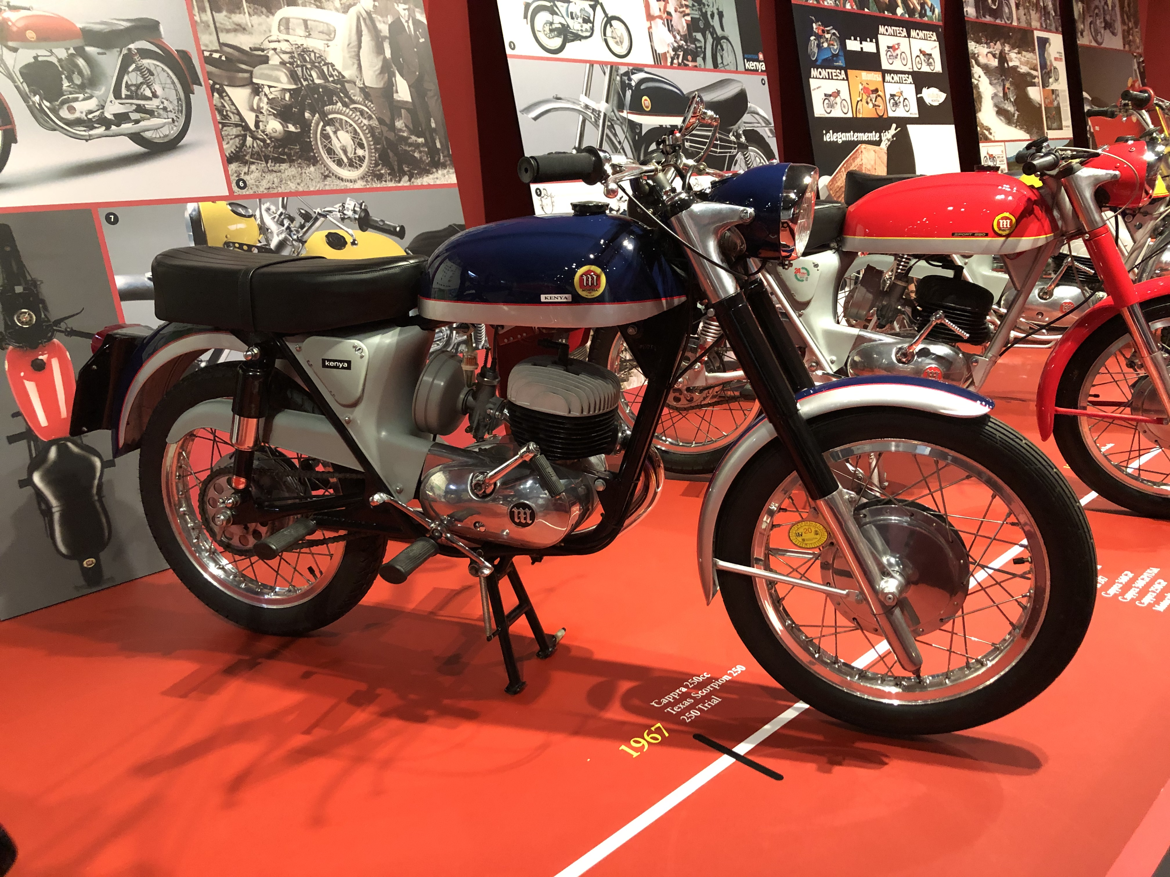 Montesa Kenya (1966), Mod. 8M, 174.7 cc